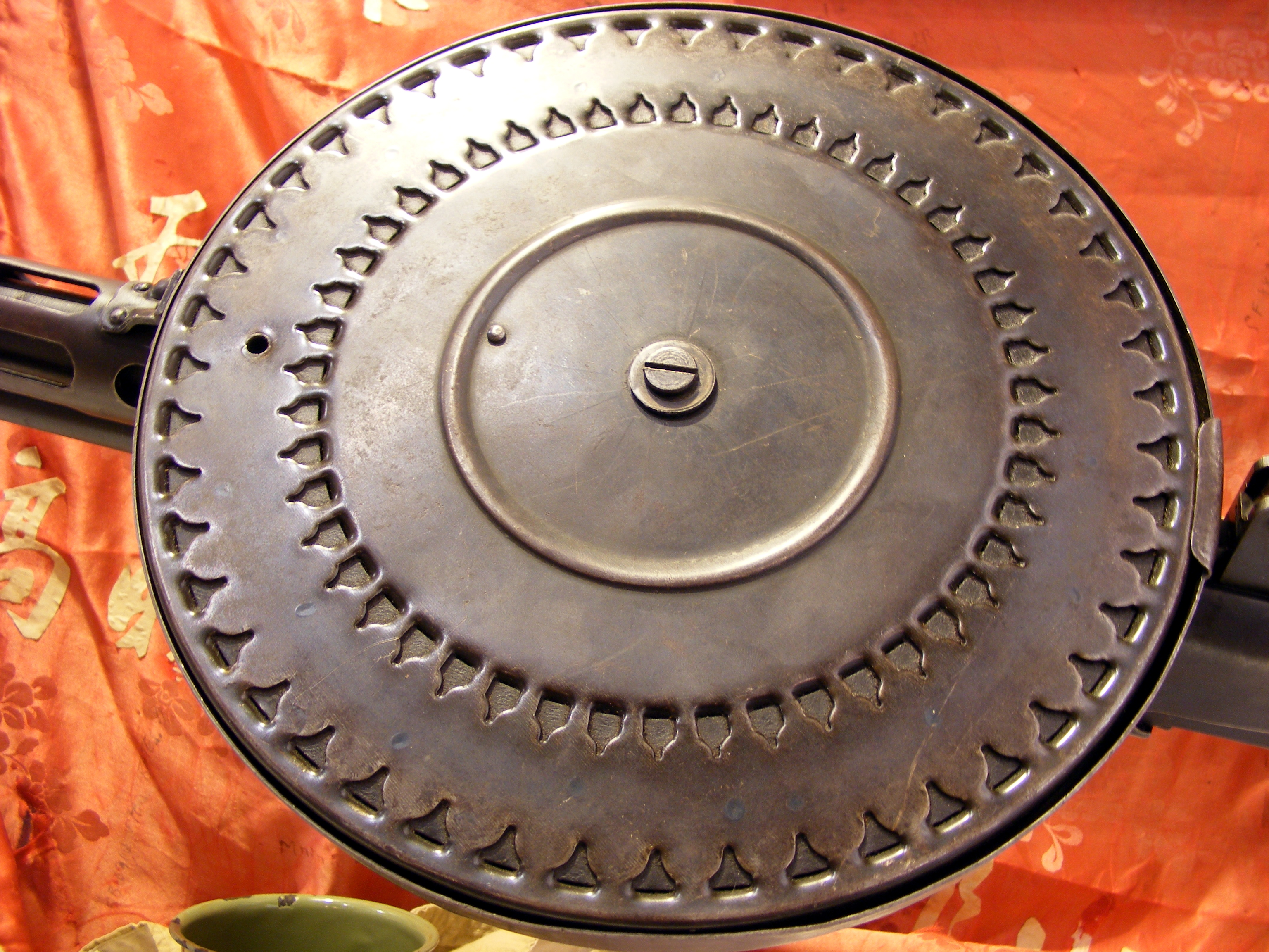 Magazine for Soviet DP light machine gun.